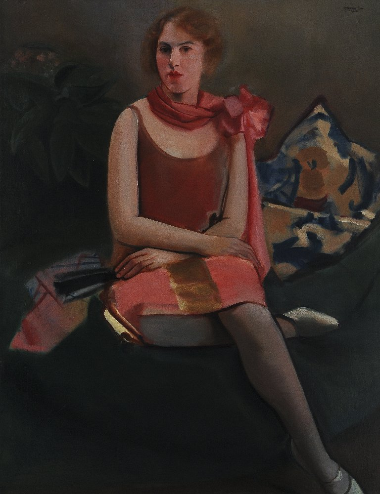 Portrait of Miss Schück